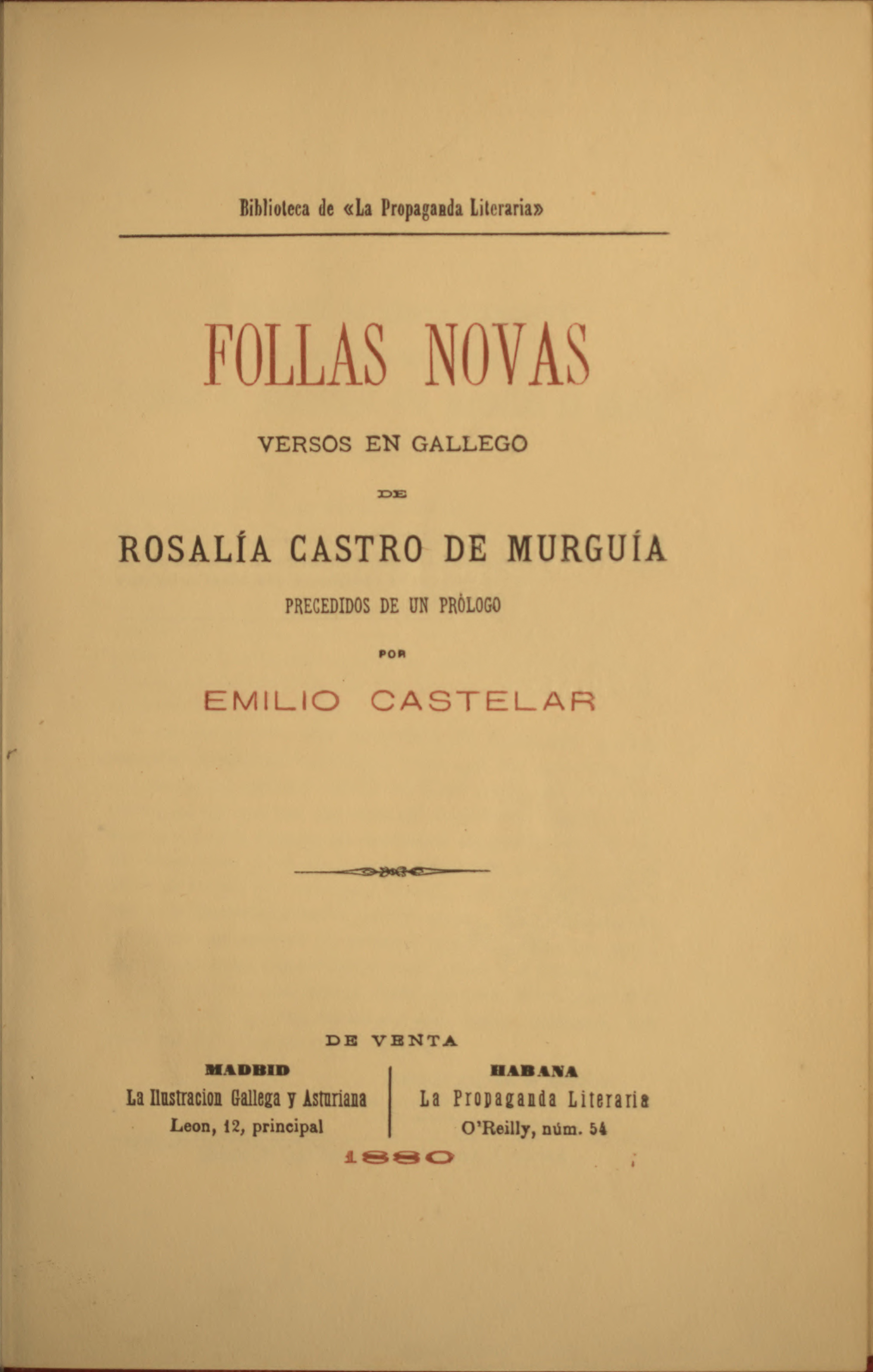 Title page of the first edition of Follas Novas (1880) by Rosalía de Castro.